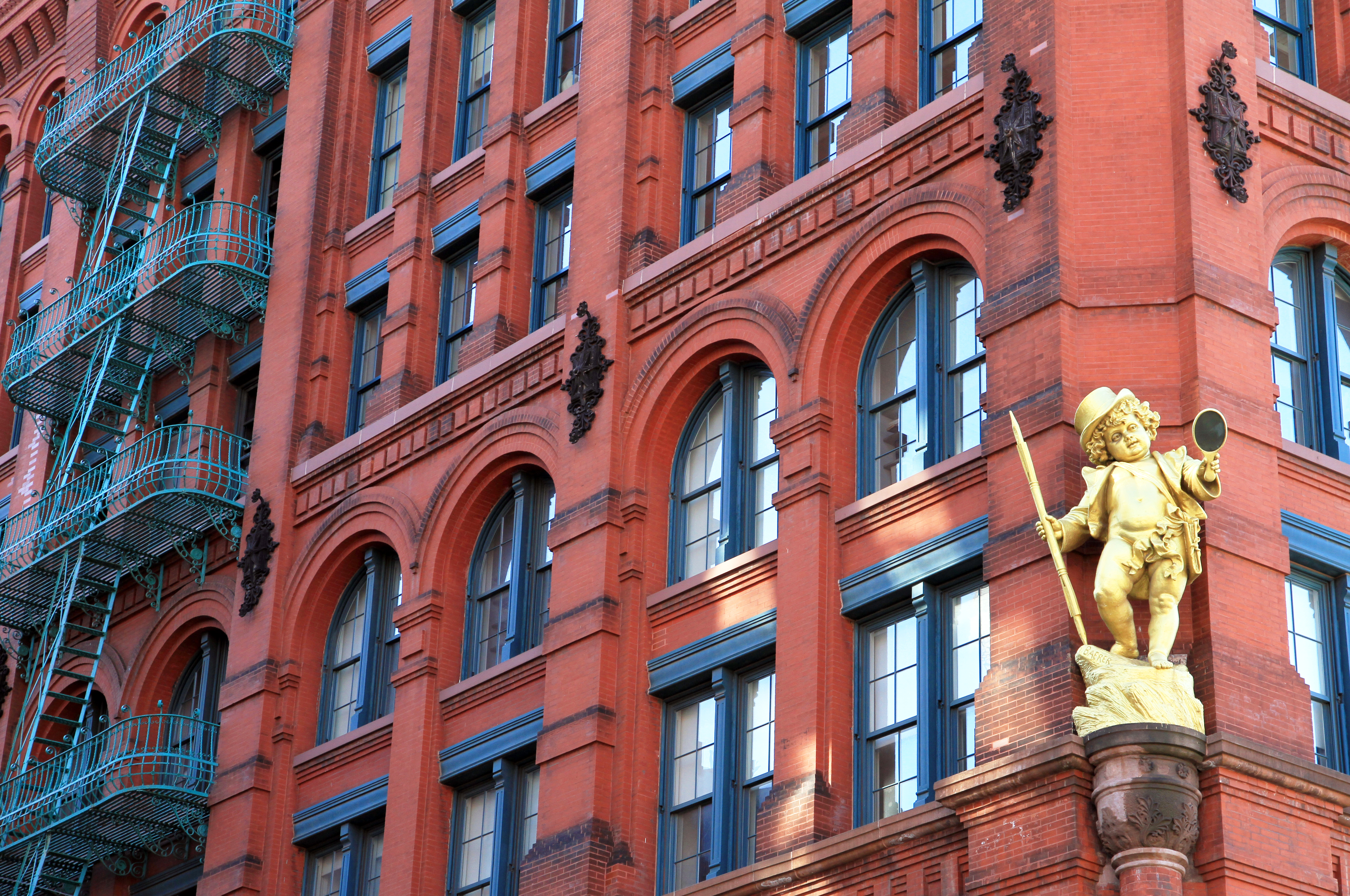 Shakespeare's character Puck